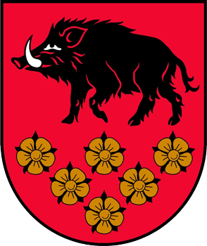 Coat of arms of Kandava municipalityLatviešu: Kandavas novada ģerbonis